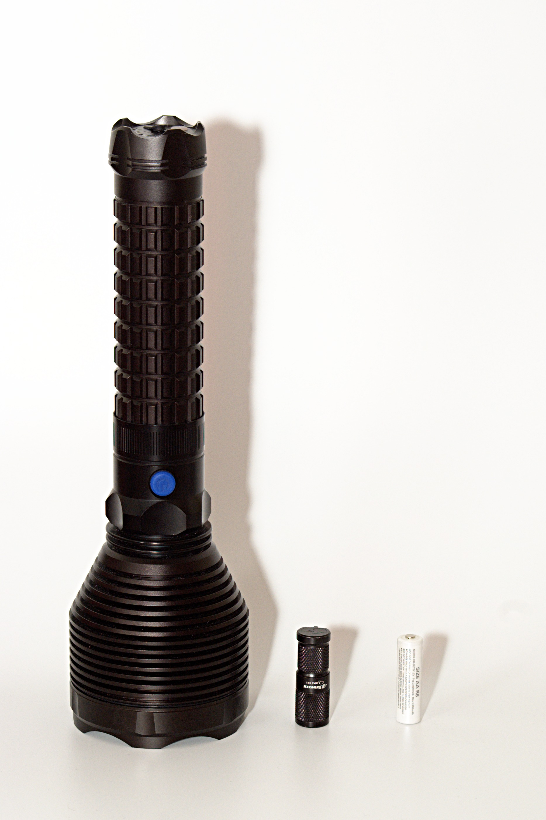 From left to right: Olight SR90 (2200lm), Foursevens Quark Mini MLR2 (180lm), AA-battery for comparison